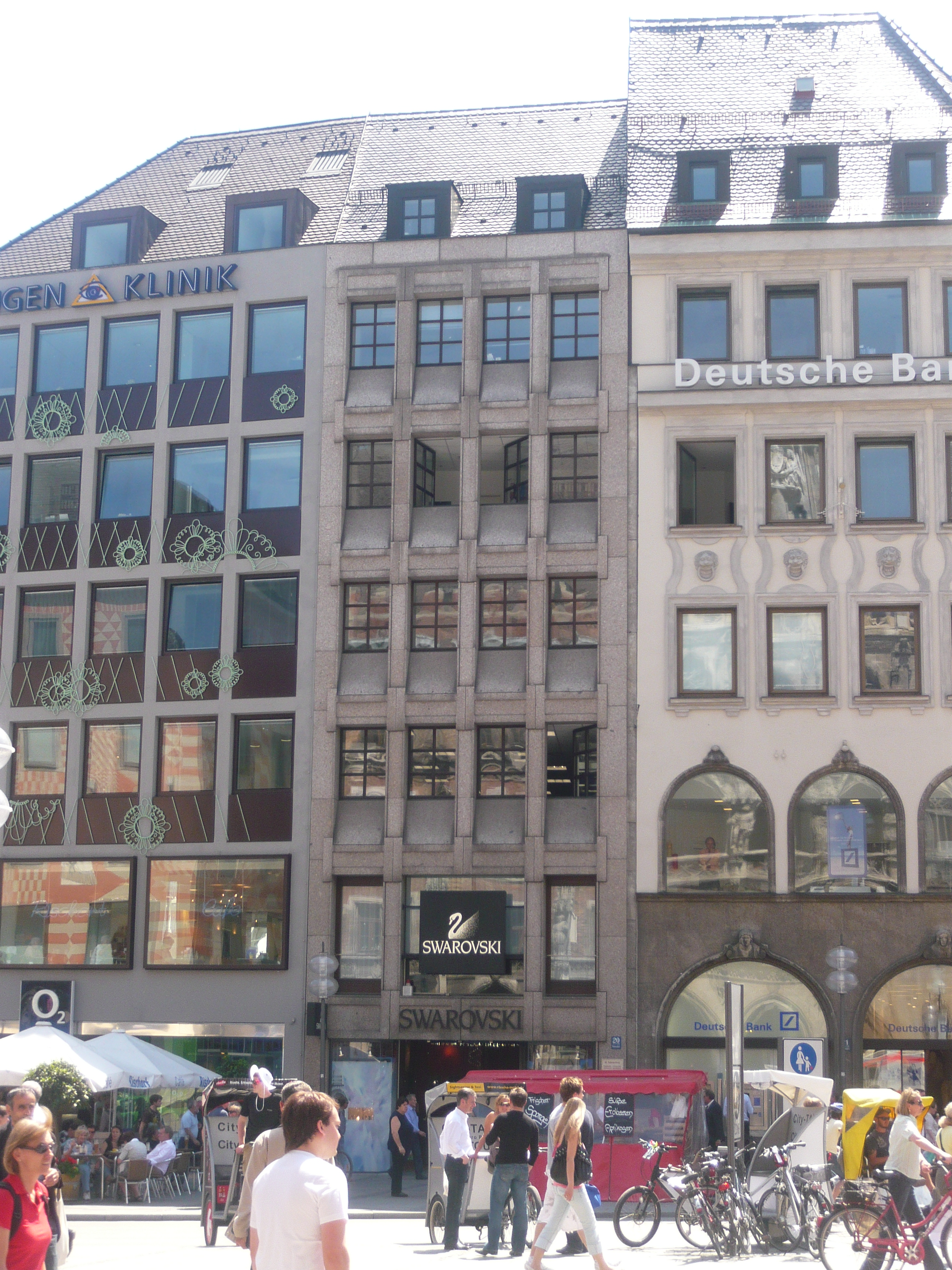 Marienplace 20, Munich – Architect: Curt O. Schaller – Store: Swarovski